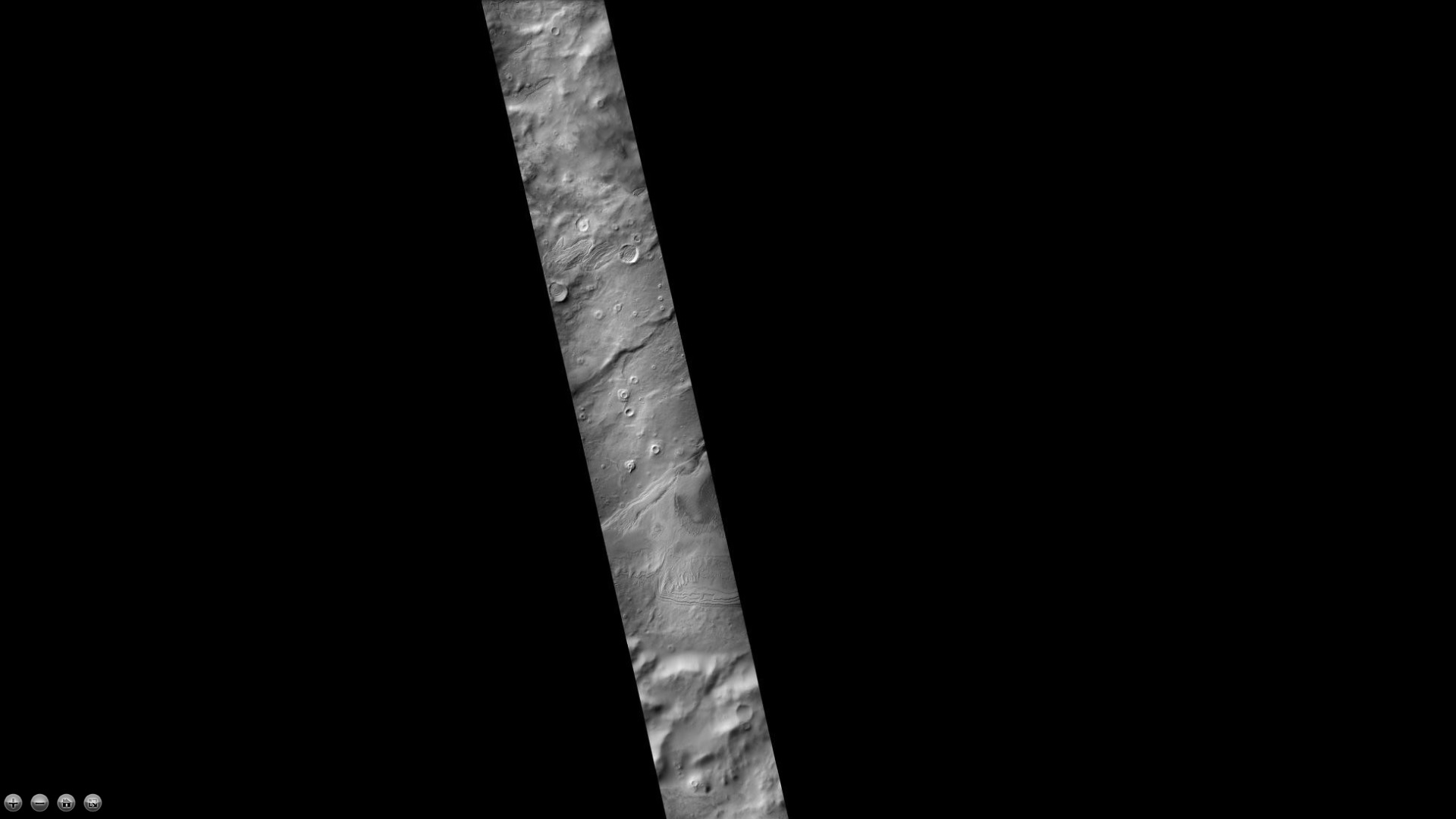 Rayleigh crater, as seen by ctx